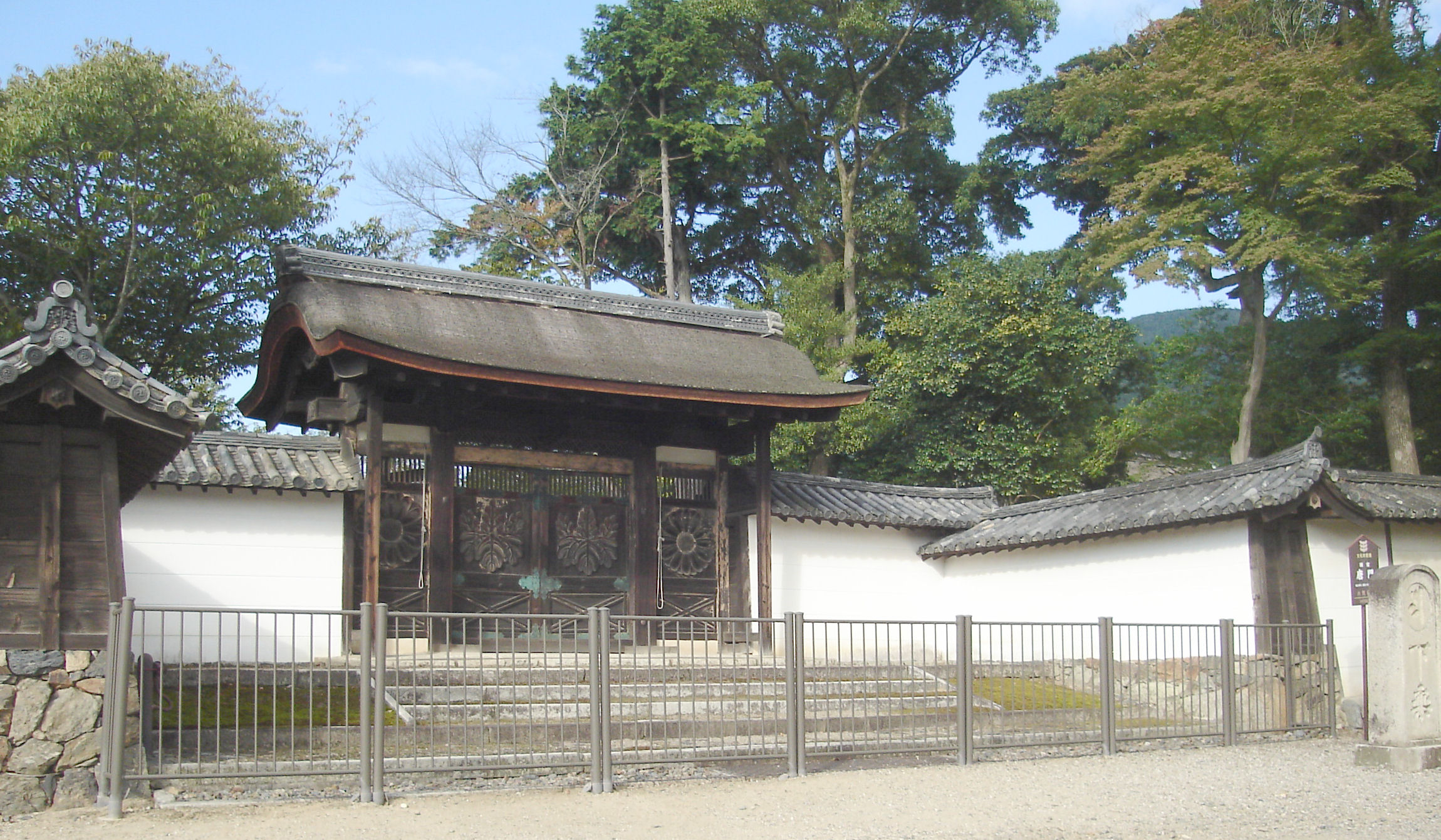 Karamon gate at the Daigo-ji temple